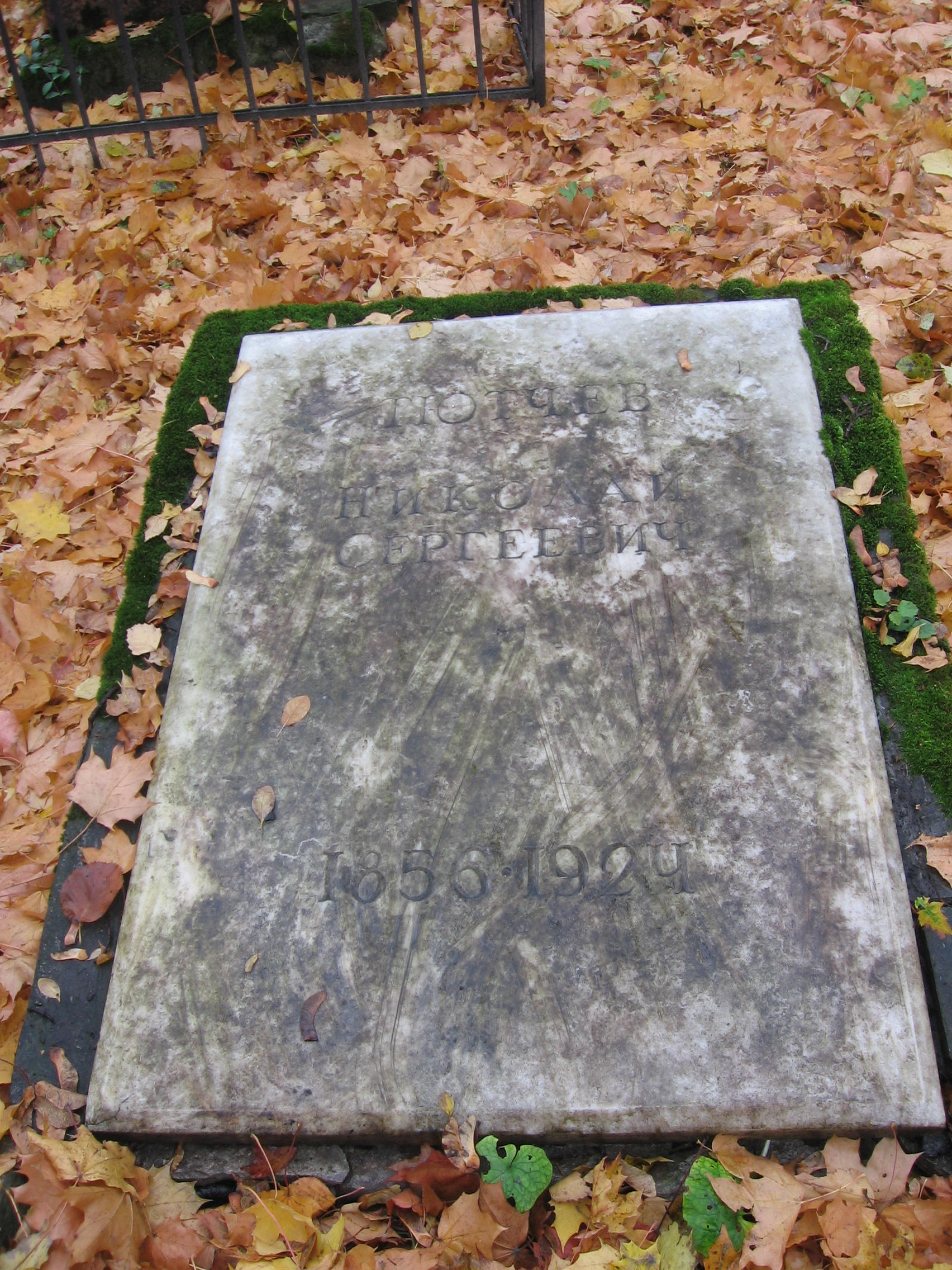 Grave of Nikolay Tyutchev